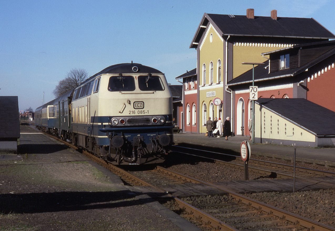 216.085 waits at Visselhövede on 14 April 1988 whilst working train E6563, 08:42 Bremen Hbf to Uelzen.